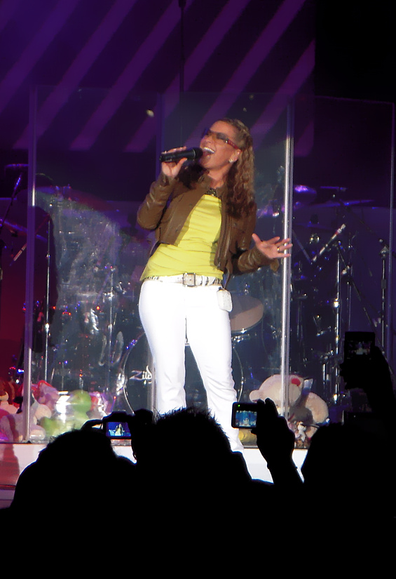 Anastacia in the Heavy Rotation Tour.